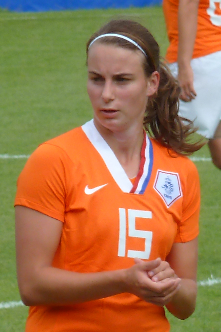 Renate Jansen during Ned-Ier 15-8-2010